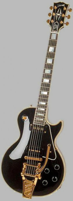 guitar Gibson Les Paul 54 Custom Bigsby